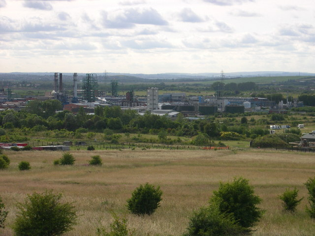 Hickson & Welch Chemical Works. View of Chemical works (now closed) from a shallow hill to the south